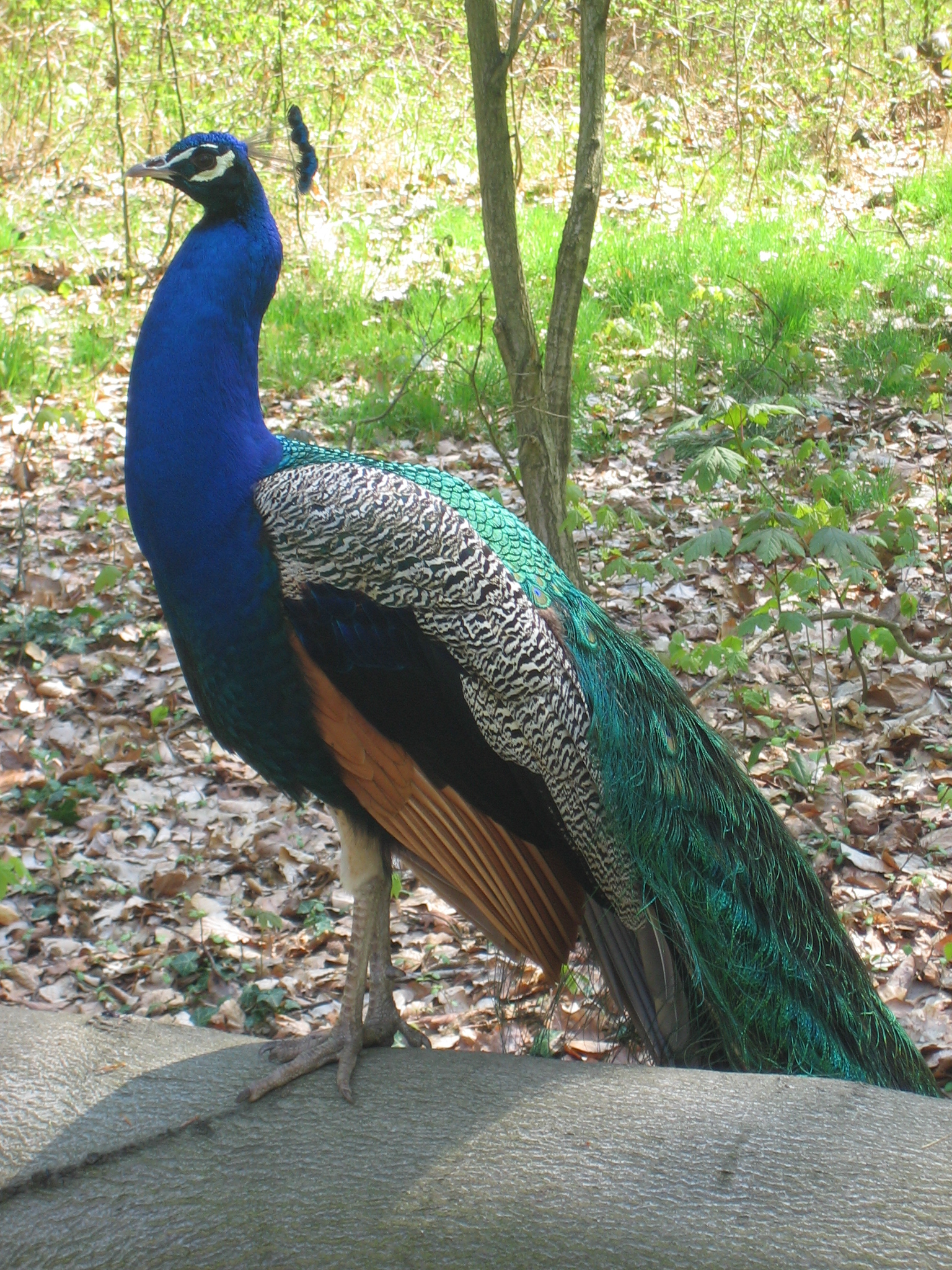 Male Blue Peafowl